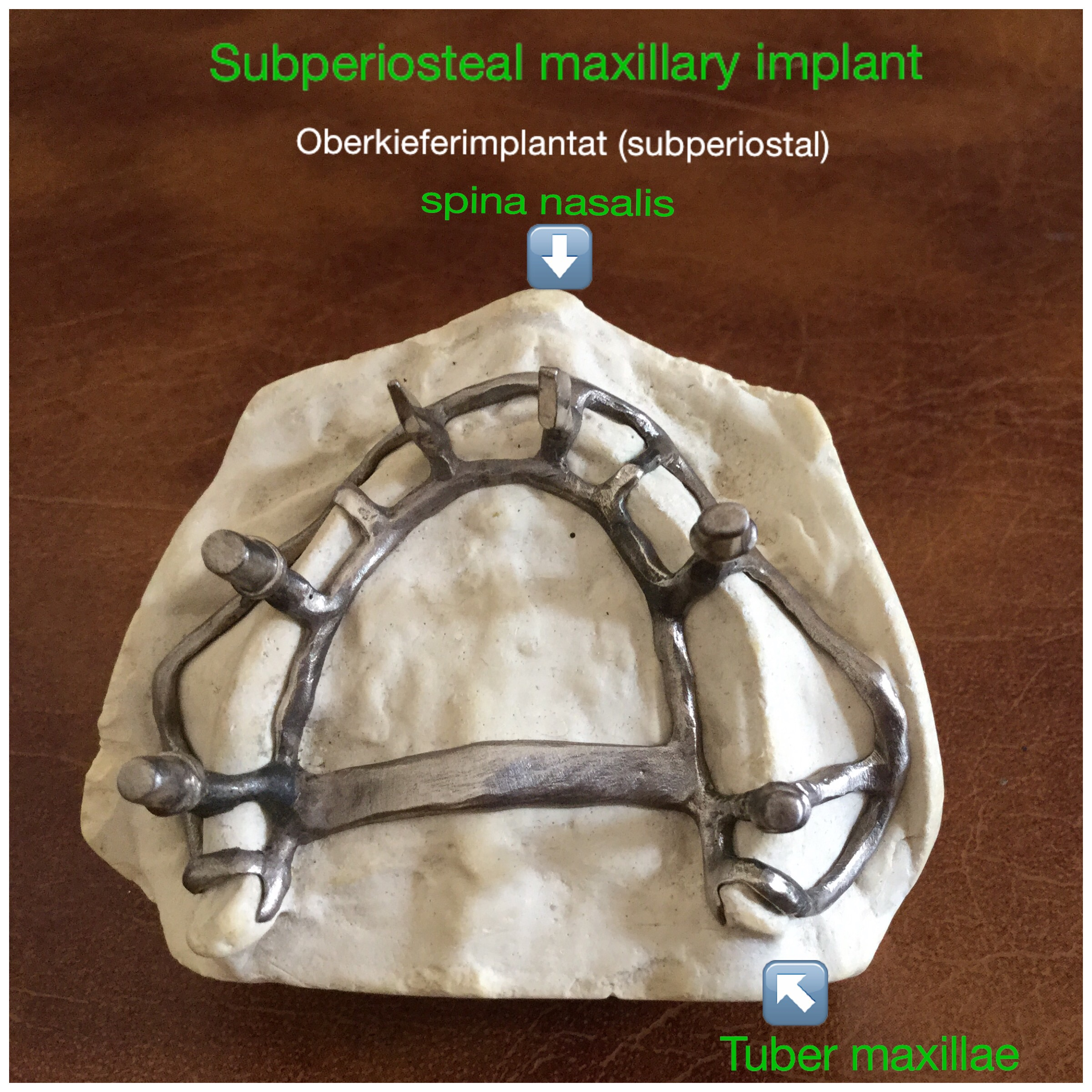 Dental stone high strength model with subperiosteal implant. Skeleton of stainless chromium cobalt molybdenum steel. For safety you need to pour two scaffolding and check with x-ray on porosities. The oral parts are polished. The subperiosteal parts are sandblasted and sterilized. In design, the three foramen and the support in the hard palate and the transverse dimension of the tape are to be observed. Integration of the implant by second operation within 24 hours. Operation and Design Klaus F. Müller 1977.